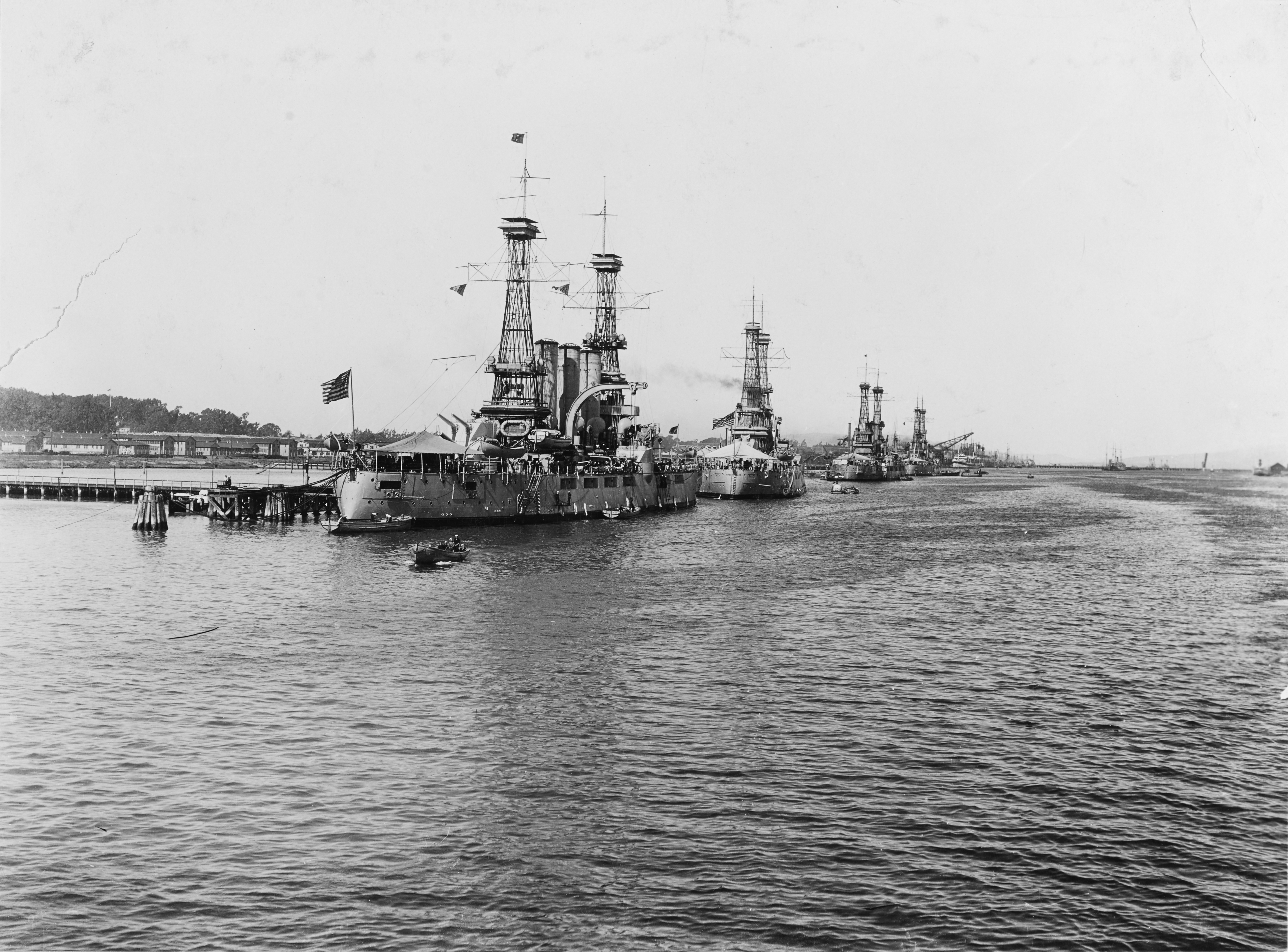 Tied up at the Mare Island Navy Yard, California, in the Spring of 1920. Ships are (from left-center foreground to right-center distance): USS Georgia (Battleship # 15); USS Rhode Island (Battleship # 17); USS Vermont (Battleship # 20) and USS Nebraska (Battleship # 14). Donation of Rear Admiral Ammen C. Farenholt, USN(MC), 1932. U.S. Naval History and Heritage Command Photograph.